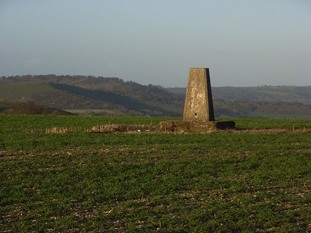 Trig point, Watership Down Just inside the flat arable farmland that abuts the gallops. This view looks across to the wooded Sidown Hill, just beyond Beacon Hill, with Ladle Hill just in shot in mid distance.